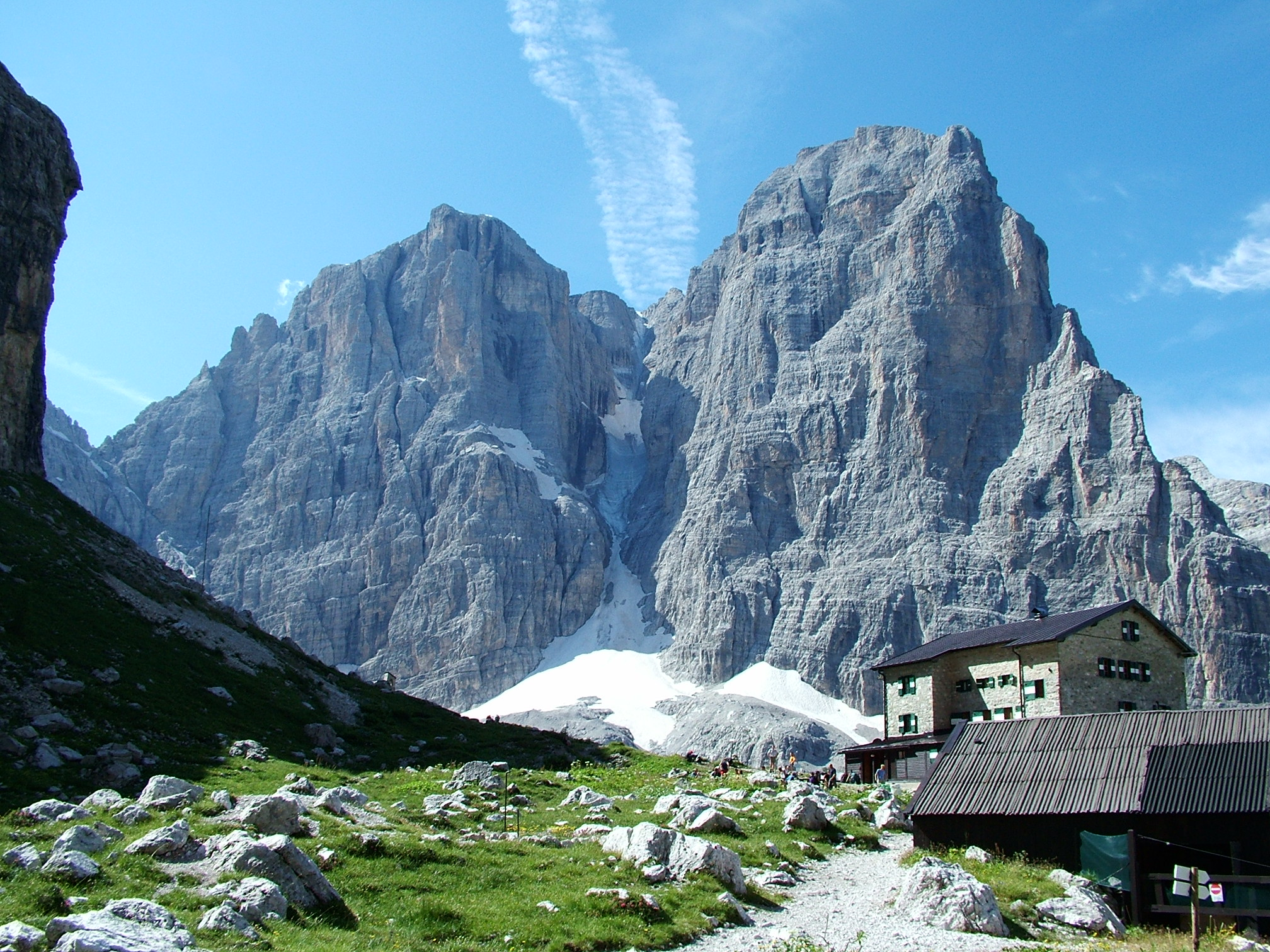 RIFUGIO BRENTEI: CIMA TOSA E CROZON DEL BRENTA